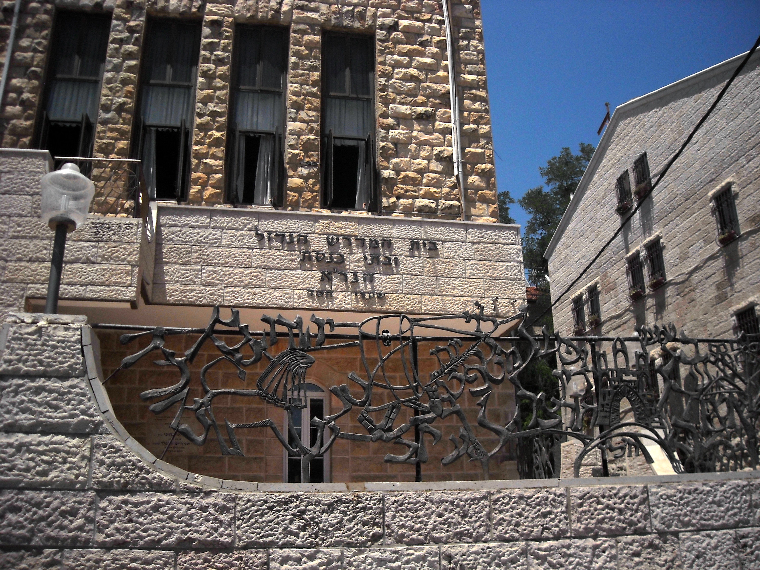 Jerusalem, Sha'arei Hesed, 5 Yesha'ayahu Bar Zakai street (corner of HaShla), Ha-Gra Synagogue.